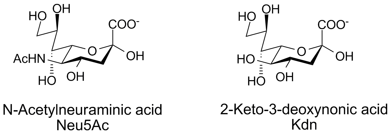 Drawings of two common sialic acid derivatives, Neu5Ac and Kdn